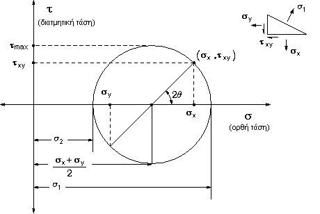 Mohrs_circle